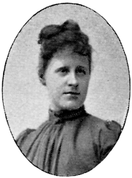 Image scanned from the book "Svenskt Porträttgalleri XX - Arkitekter, Bildhuggare, Målare m.fl. " ("Swedish Portrait Gallery XX - Architects, Sculptors, Painters, ") published 1901